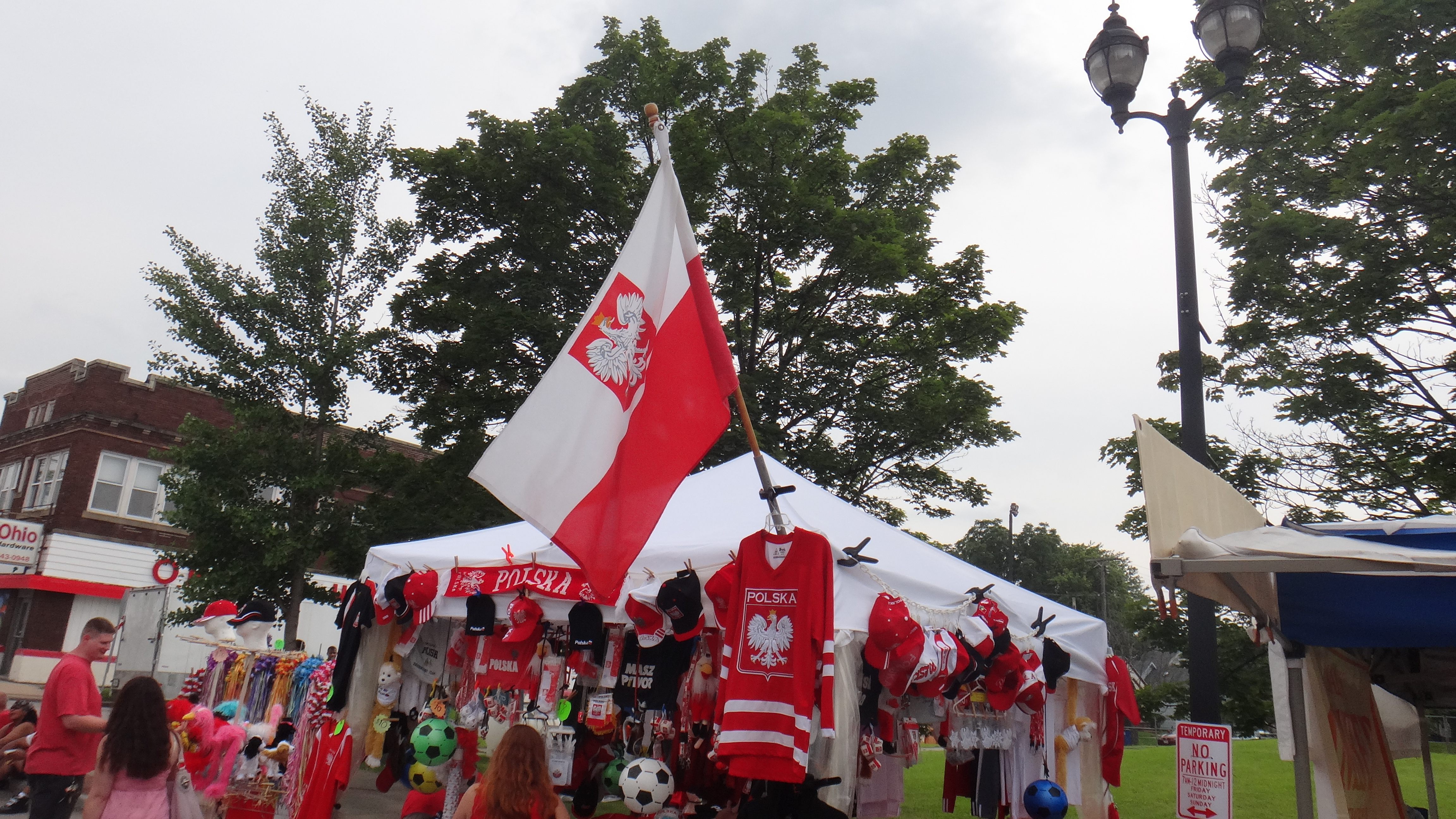 Polish and Polish themed items being sold at the Lagrange street Polish Festival in Toledo,Ohio,United States.